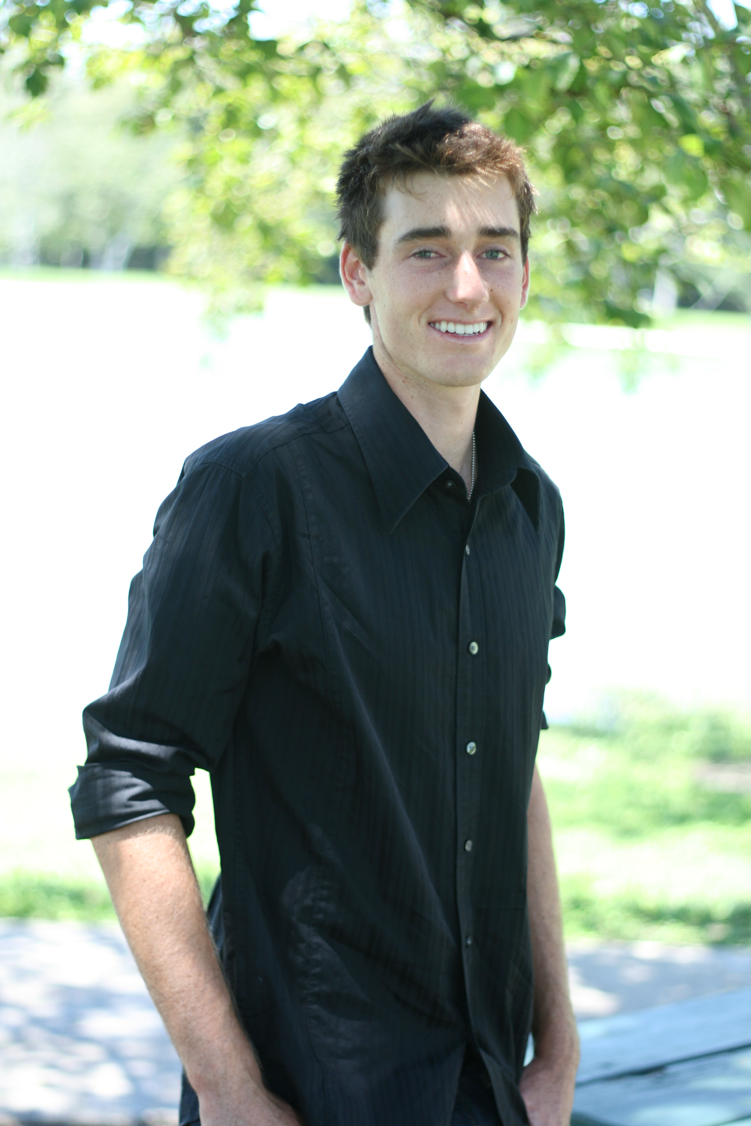 2007 Michael McClune headshot by John Tocci